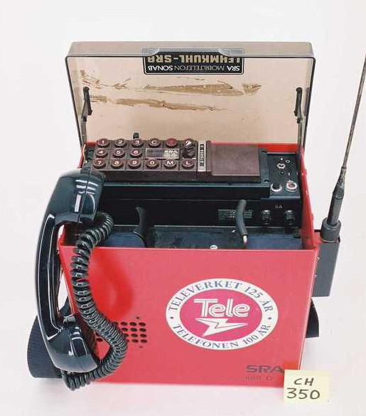 SRA 600D mobile phone from Svenska Radioaktiebolaget (SRA).